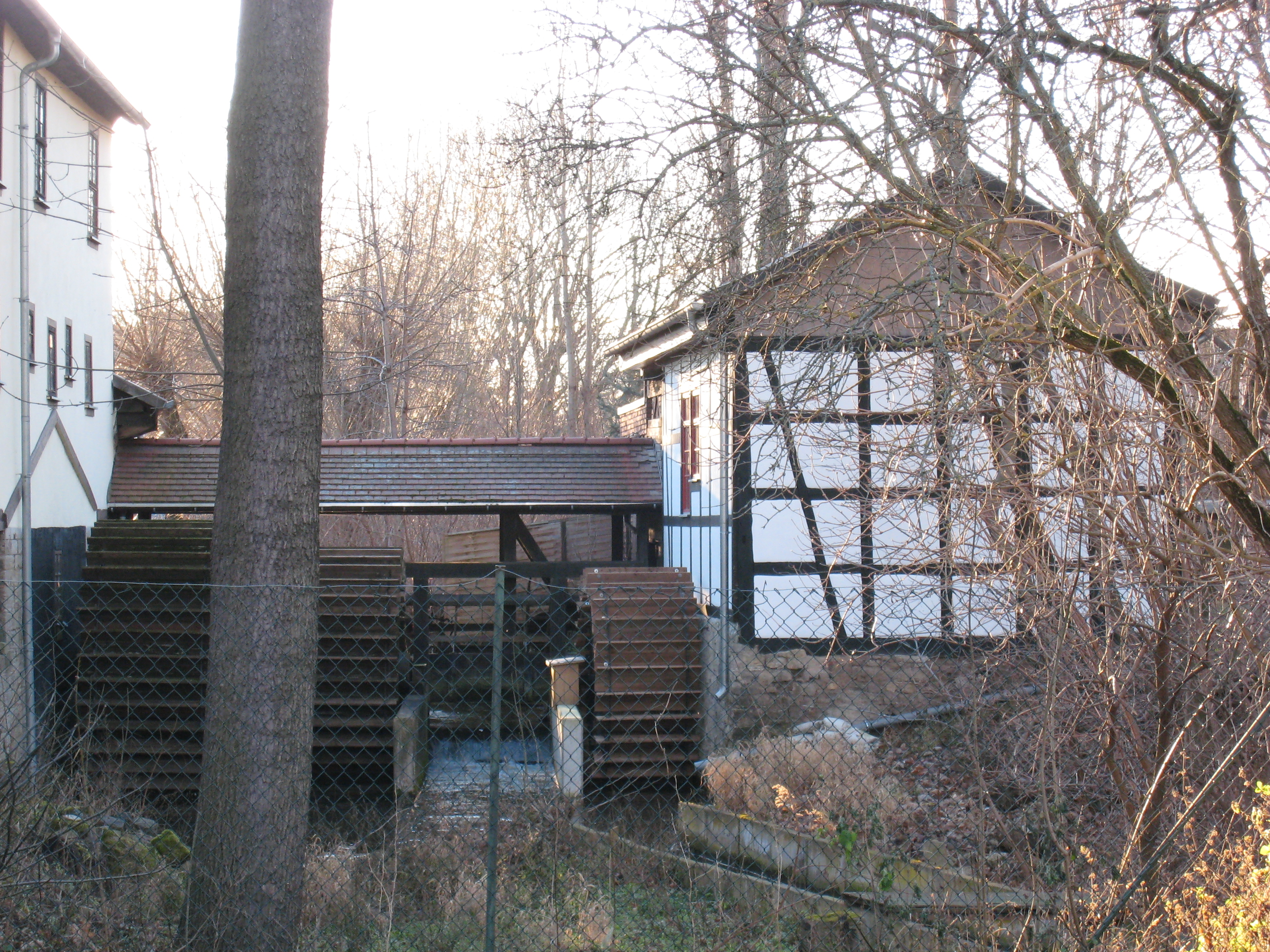 Mill Heiligenmühle Erfurt, Mittelhäuser Straße 16